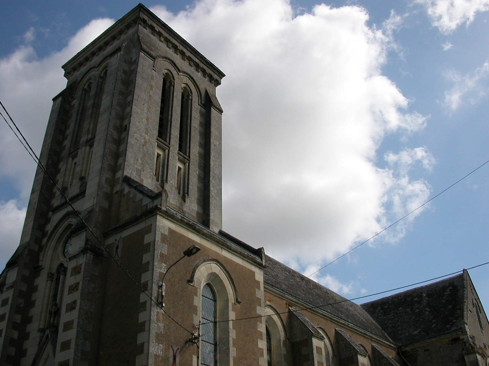 Church of La Ferrière-de-Flée